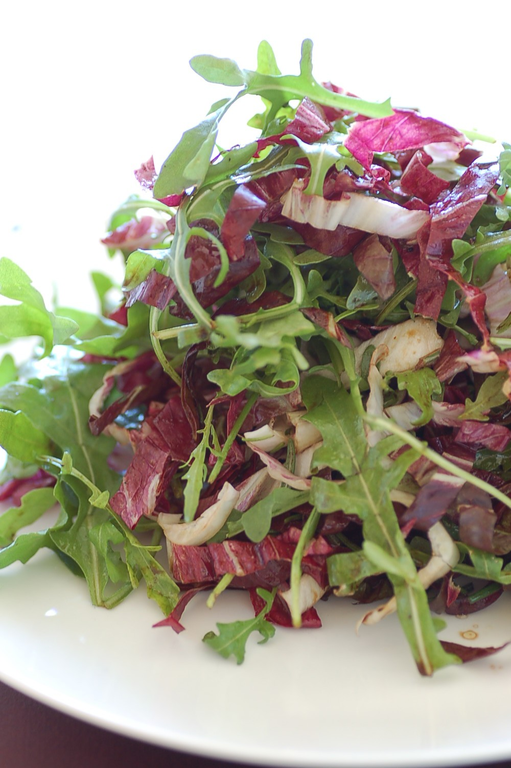 recipe here